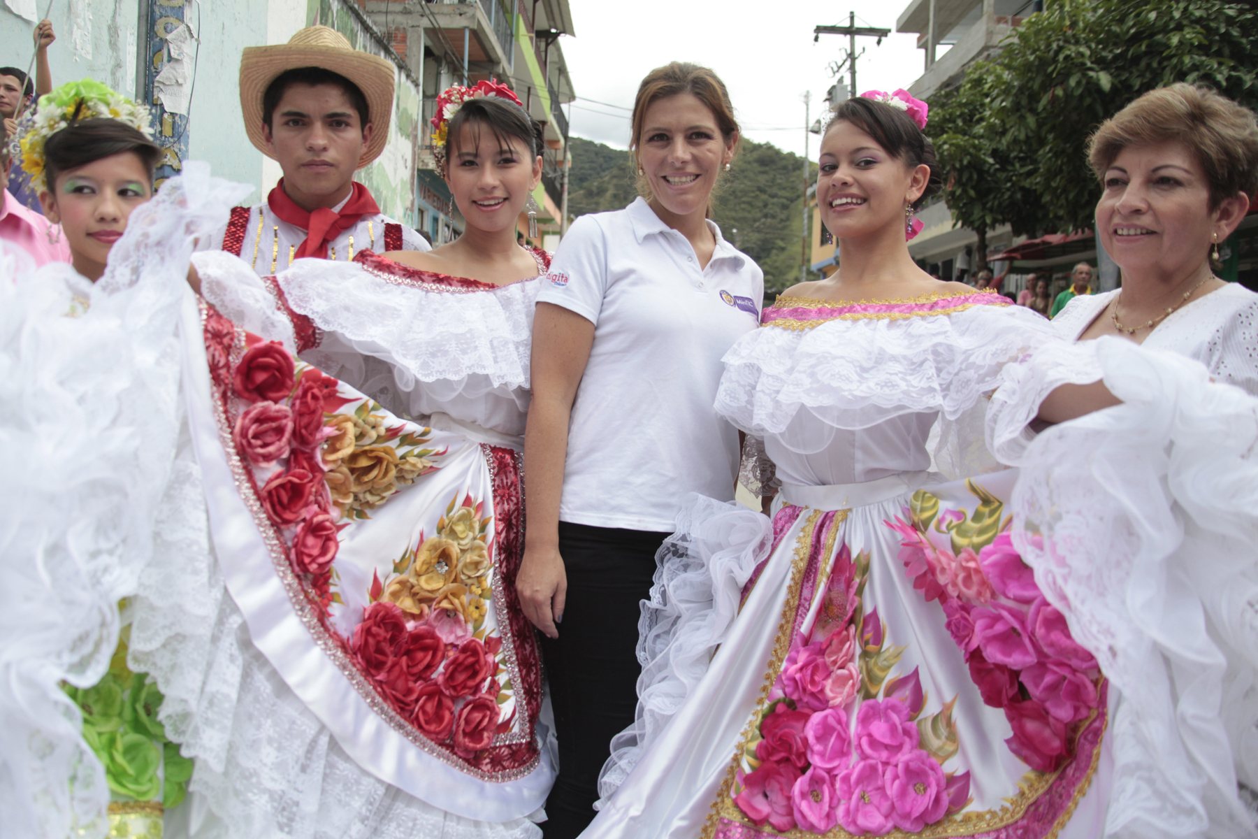 Some queens of the festival with the Deputy minister El Ministro TIC, Diego Molano Vega y la Viceministra María Carolina Hoyos, visitaron el municipio de Santa María, Huila, para hacer entrega de equipos portátiles para beneficiar la práctica educativa de más de 1.000 estudiantes.